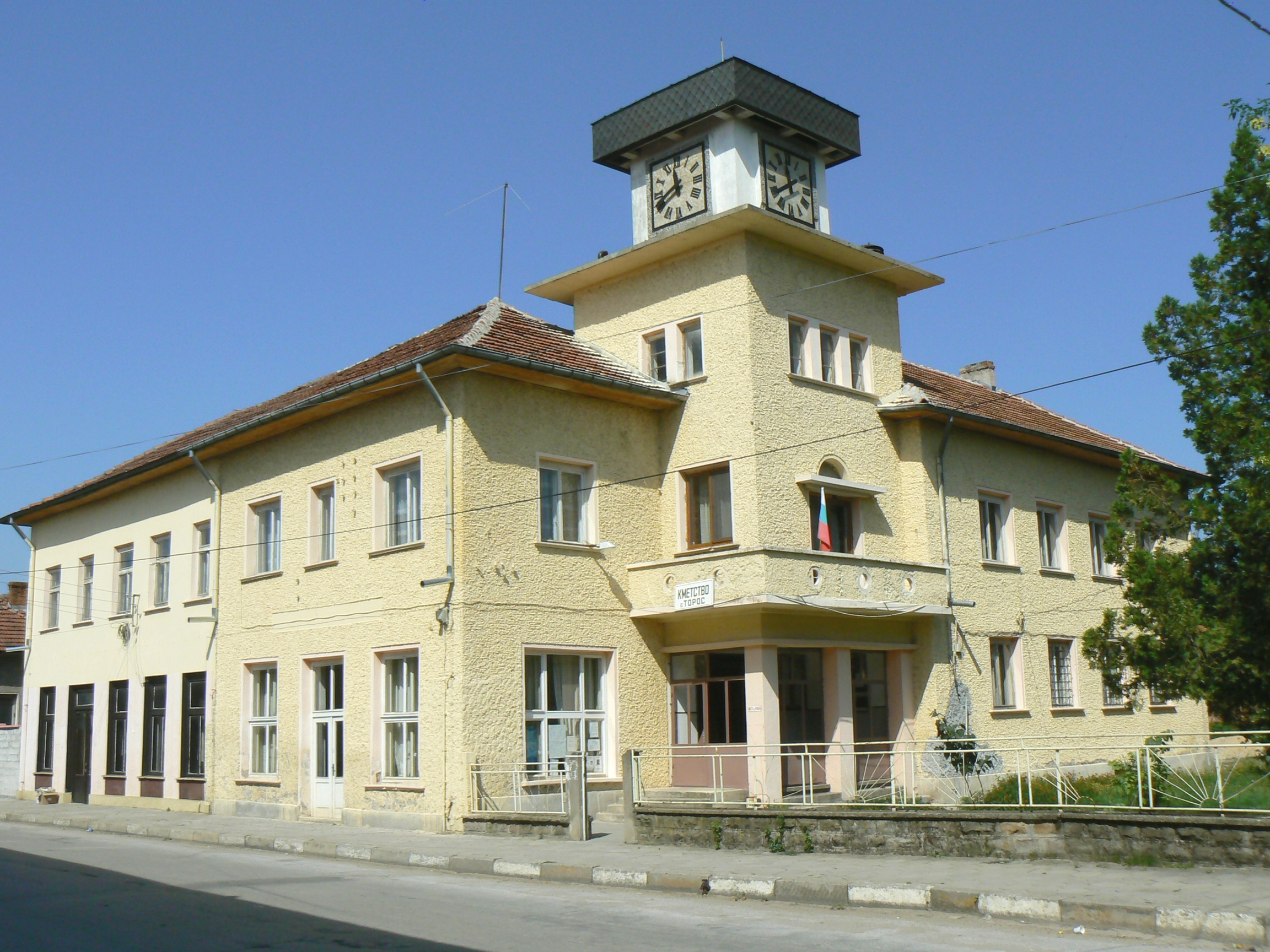 The mayors office of village Toros, Bulgaria